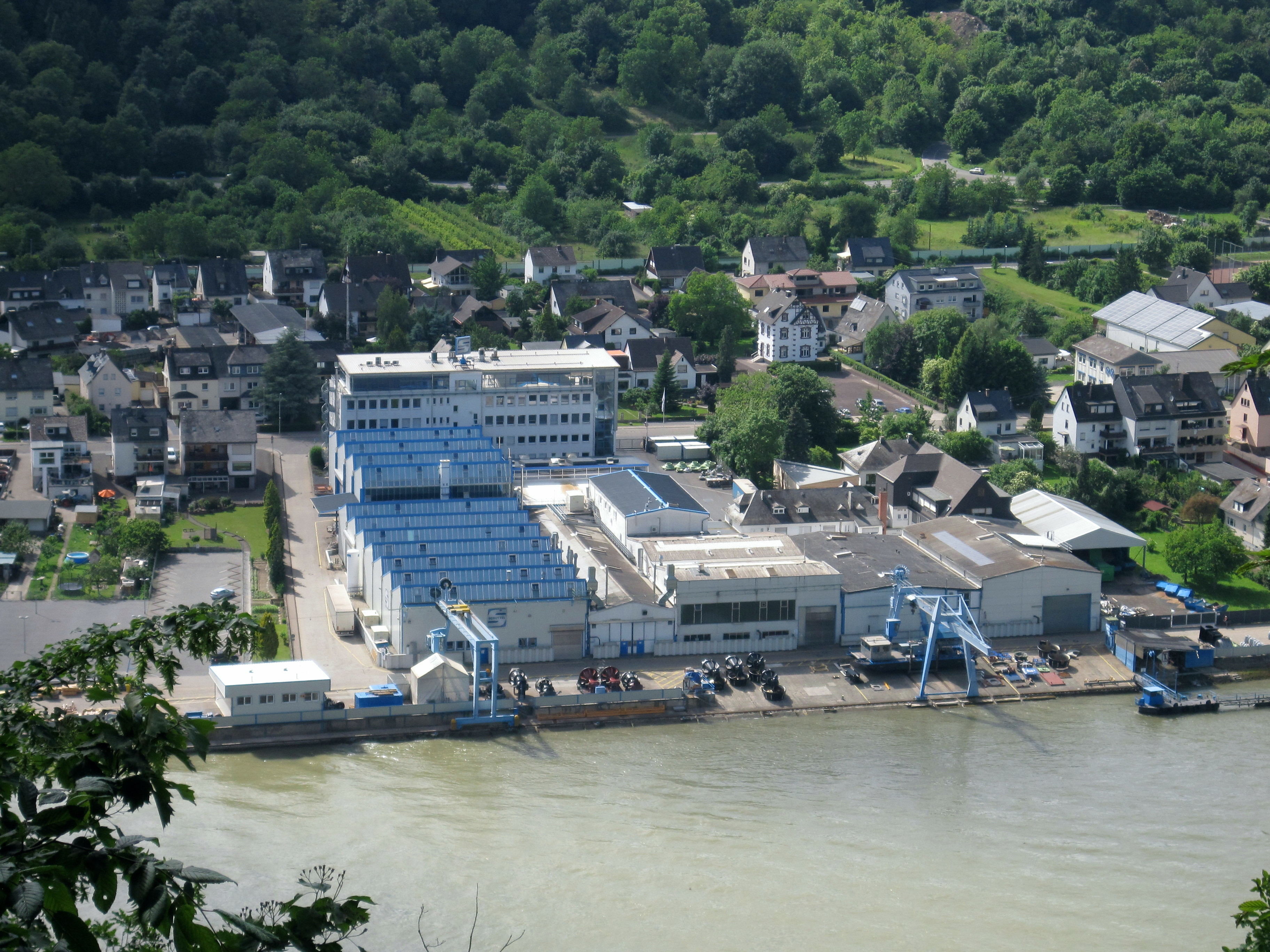 Schottel (Shipyard), Rhineland-Palatinate, Germany